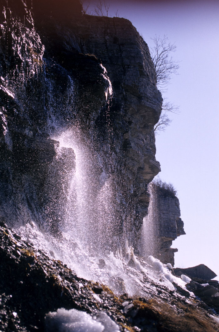 Pakri Cliff, a part of the Baltic Clint, in Pakri Peninsula.